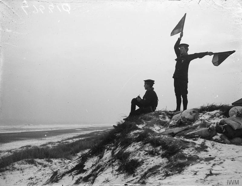 The Boy Scouts Association in Britain, 1914-1918 A member of the Sea Scouts taking messages and semaphoring to a Torpedo Boat Destroyer at sea.